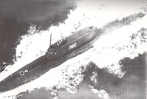 A Project 629A (NATO reporting name Golf-II class) diesel-electric Soviet ballistic missile submarine K-129, hull number 722.